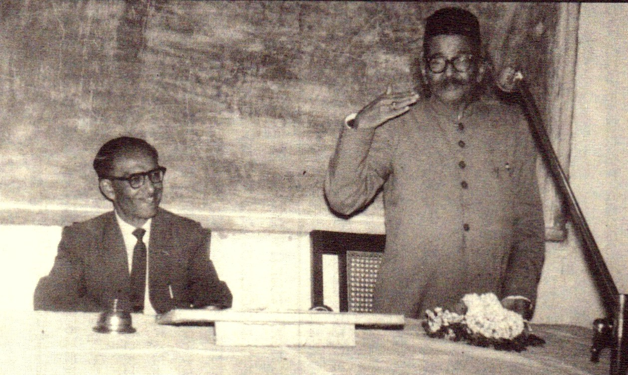 H. S. Krishnaswamy Iyengar with D. R. Bendre at a function in Kannada Sahitya Parishat (early 1950s)